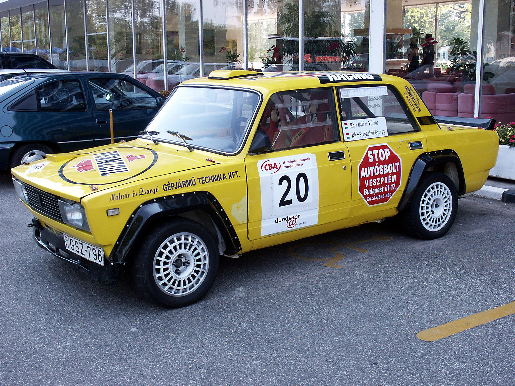 Author: Graham Berry, 2002